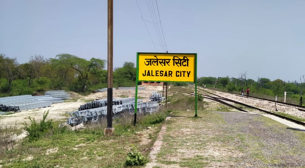 Station